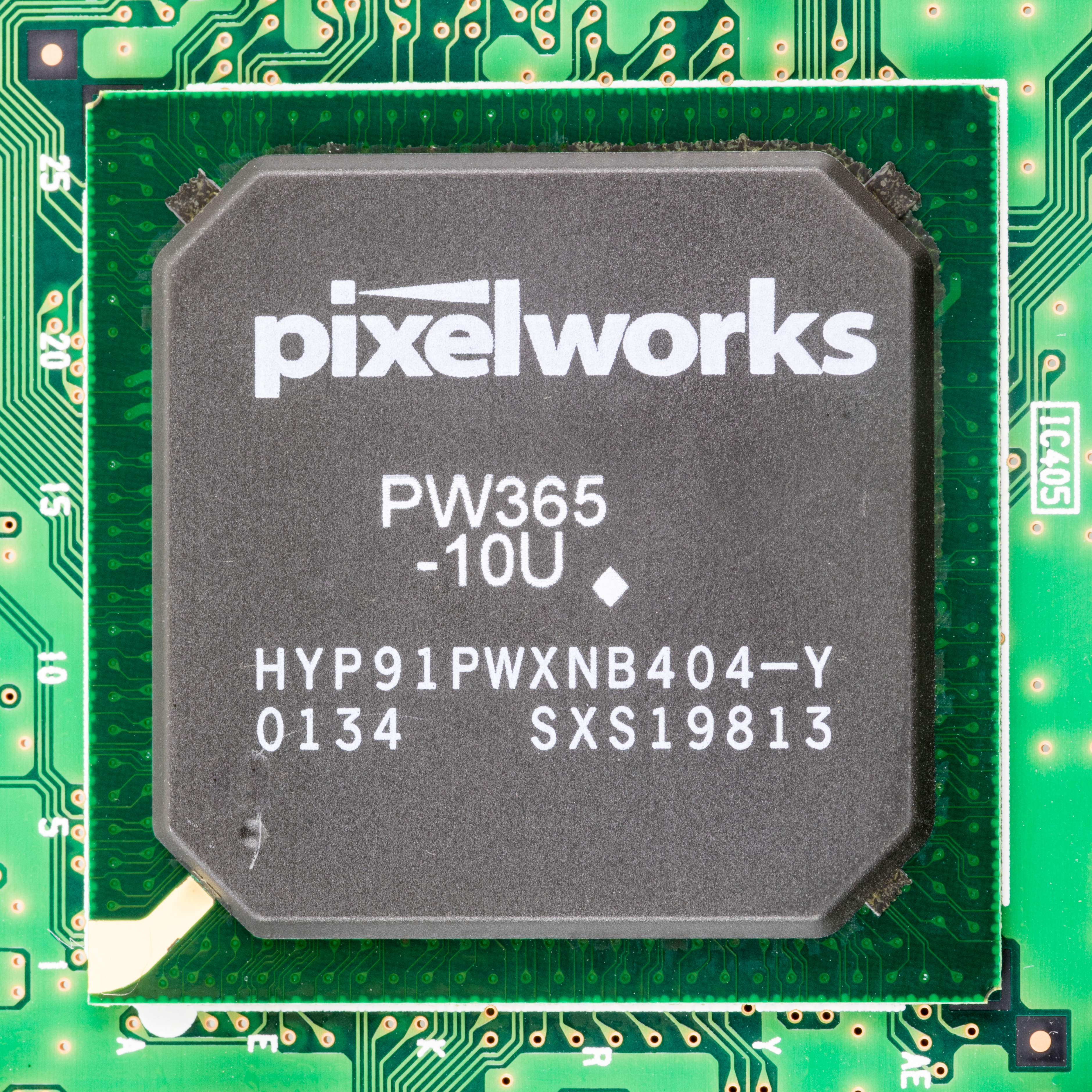 Sony VPL-HS1 - EP-GW 1-682-353-11 printed circuit board - Pixelworks PW365-10U